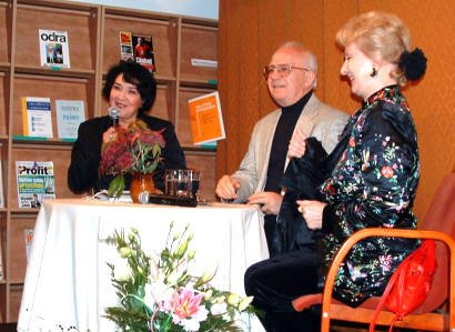 This image has been copied from the source with the permision of webmaster (and with the consent of the director of the service). The permission was granted to Stan Zurek (Zureks) via email from Mirosław Domański Jerzy Antczak (centre) i Jadwiga Barańska (right)